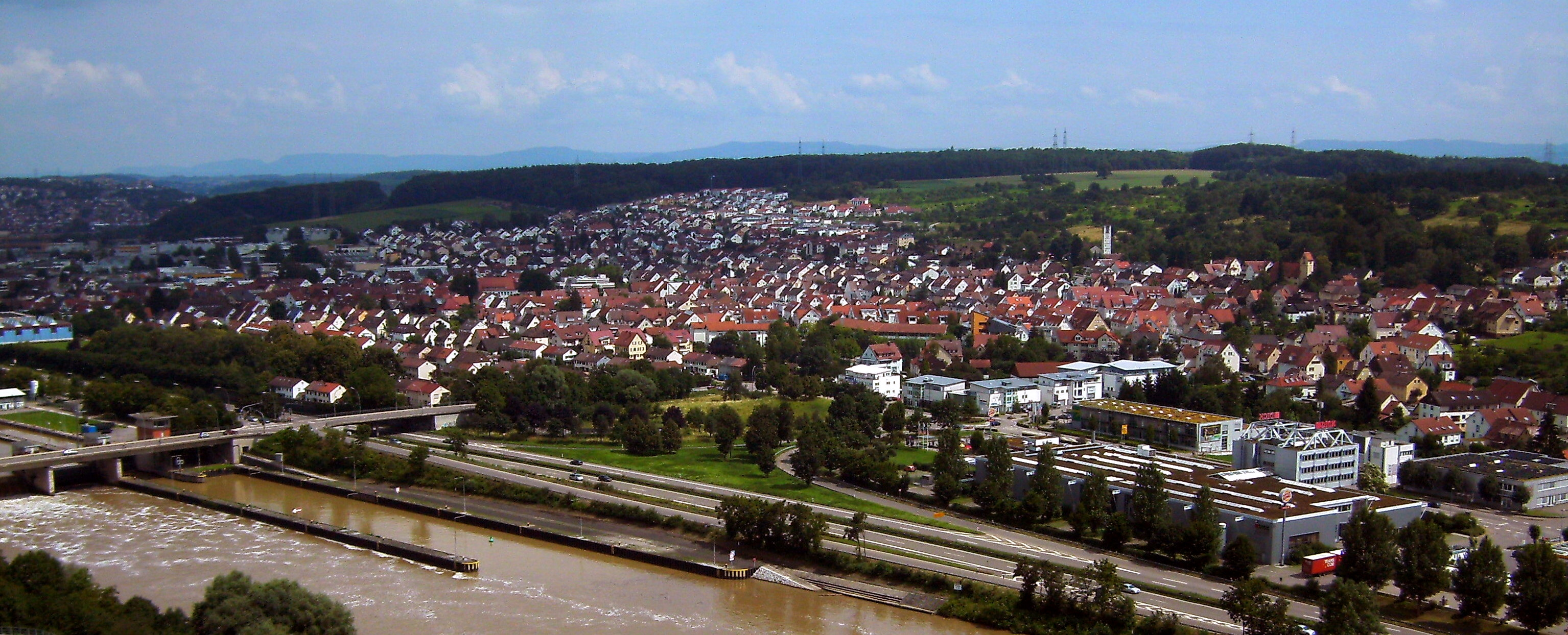 Deizisau seen from roof of Altbach power station on June 28th, 2009